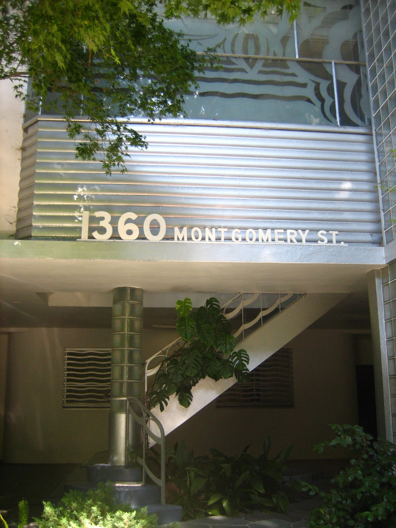 Photograph of the Malloch Building at 1360 Montgomery Street at the intersection of Montgomery and the Filbert Steps. The building was used as Lauren Bacall's apartment in the 1947 noir film, Dark Passages.